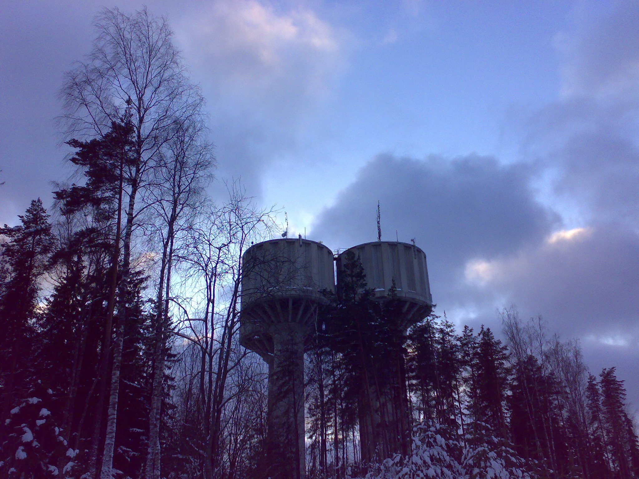 Korso water tower located in Matari district, Korso major district, Vantaa, Finland